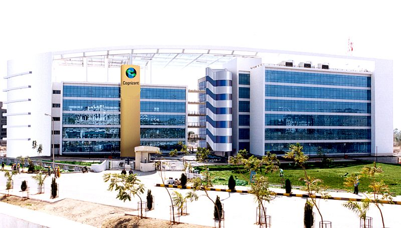 Cognizant's Delivery Center in Pune- Hinjewadi